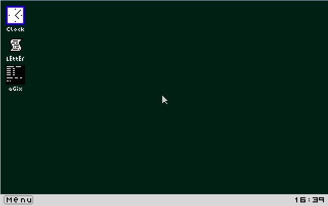 One of many COSMOS shells, presenting possibility of GUI creation (Universum OS)